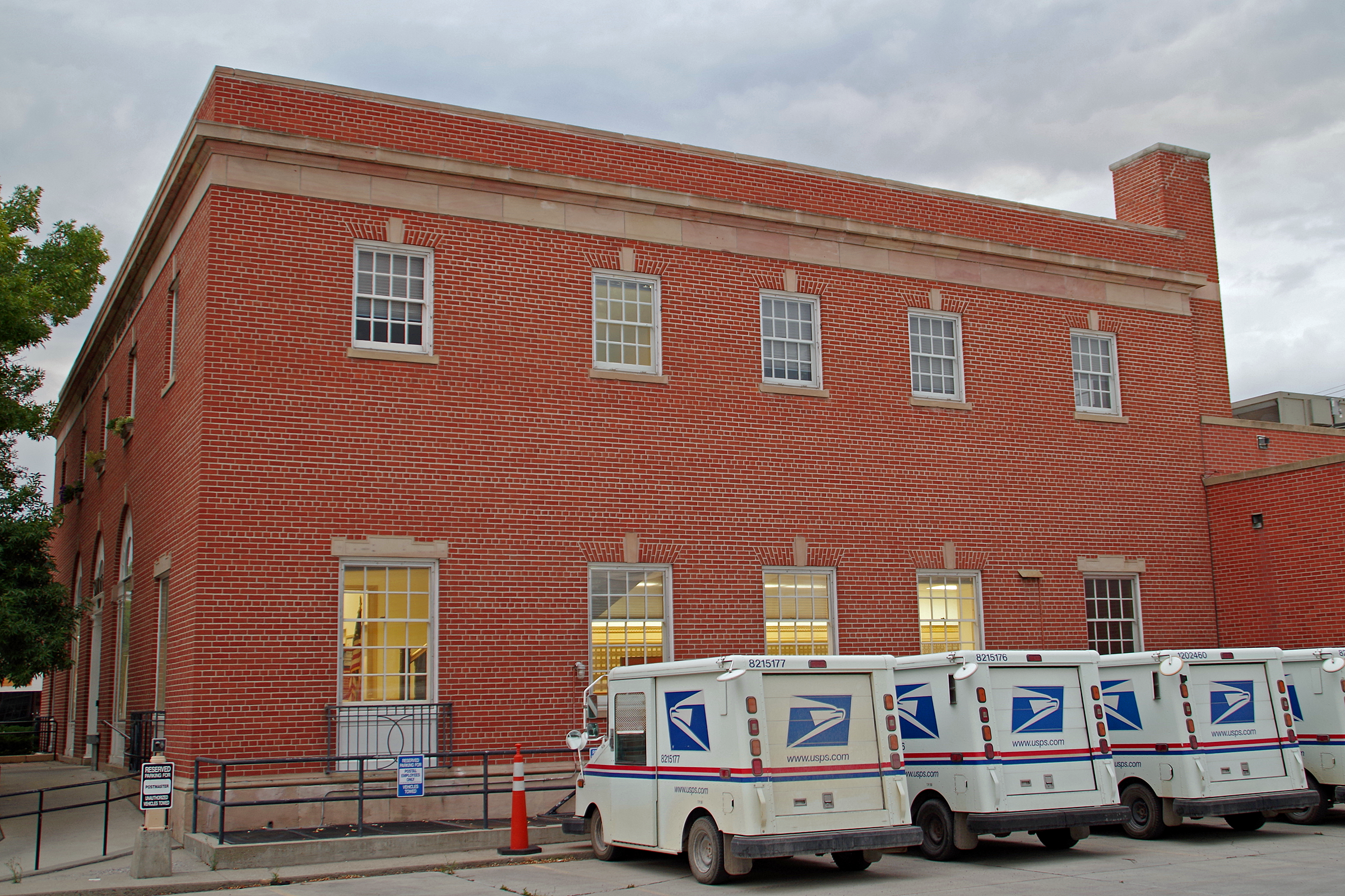 US Post Office-Dillon Main